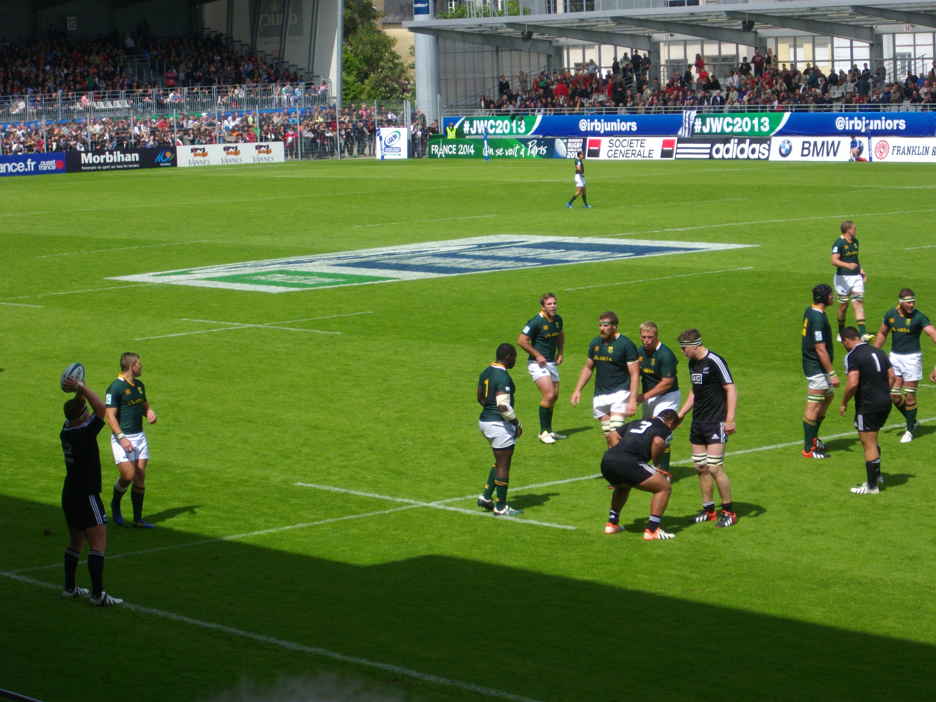 Third place game of the en:2013 IRB Junior World Championship, between South Africa and New Zealand teams, in Rabine stadium of Vannes (Morbihan, France), 23 June 2013. Line-out.